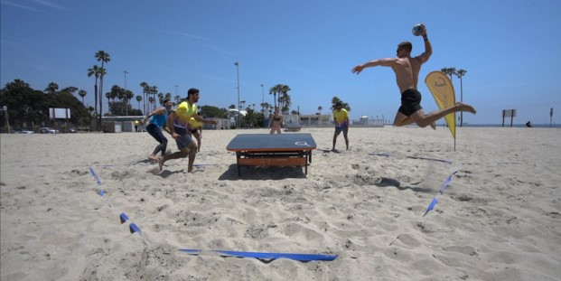 Beach Qatch in Los Angeles